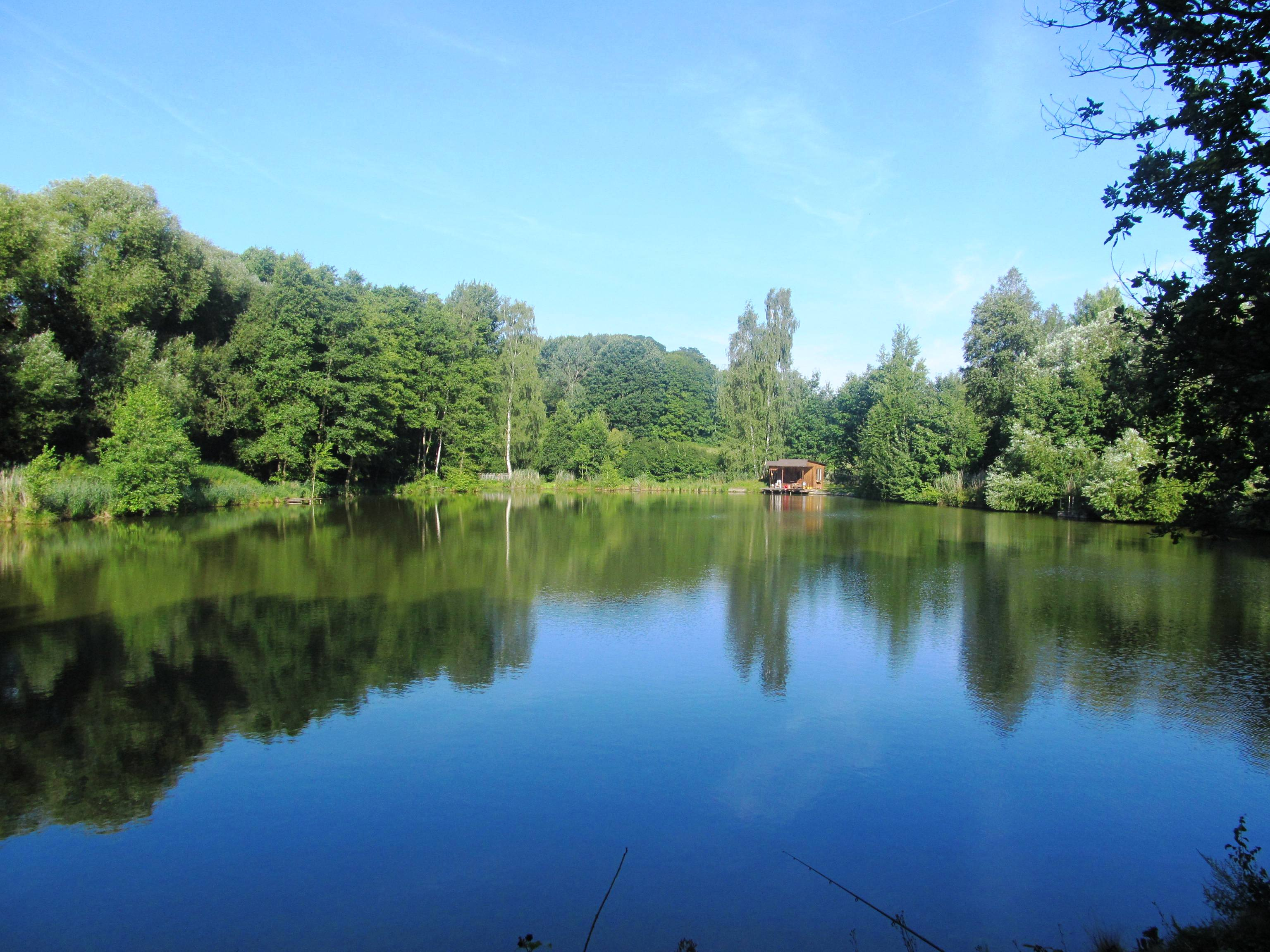 Pond Evík in Nedvídkov